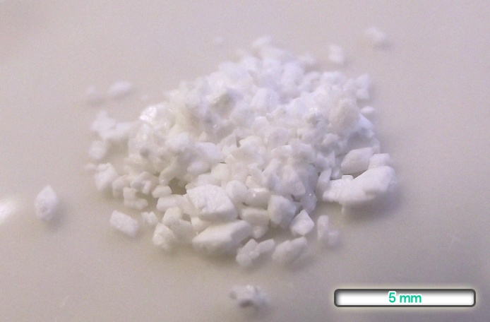 Photo of Saccharin - sodium salt, pure